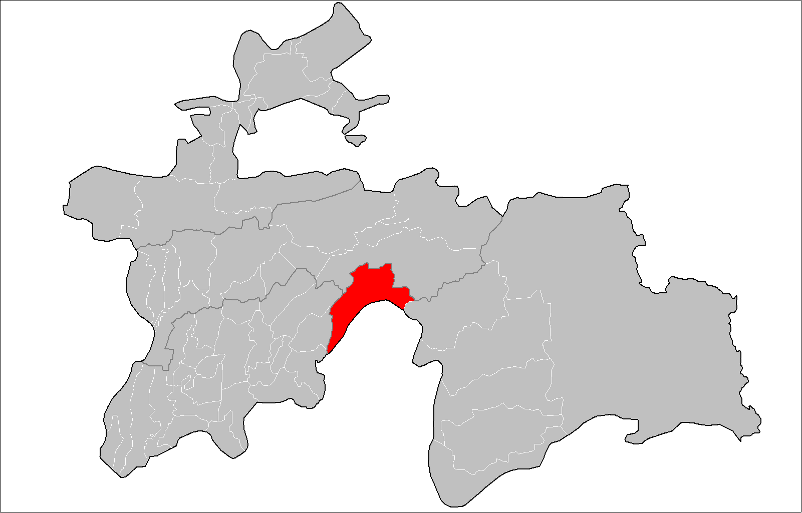 Location of Darvoz District in Tajikistan